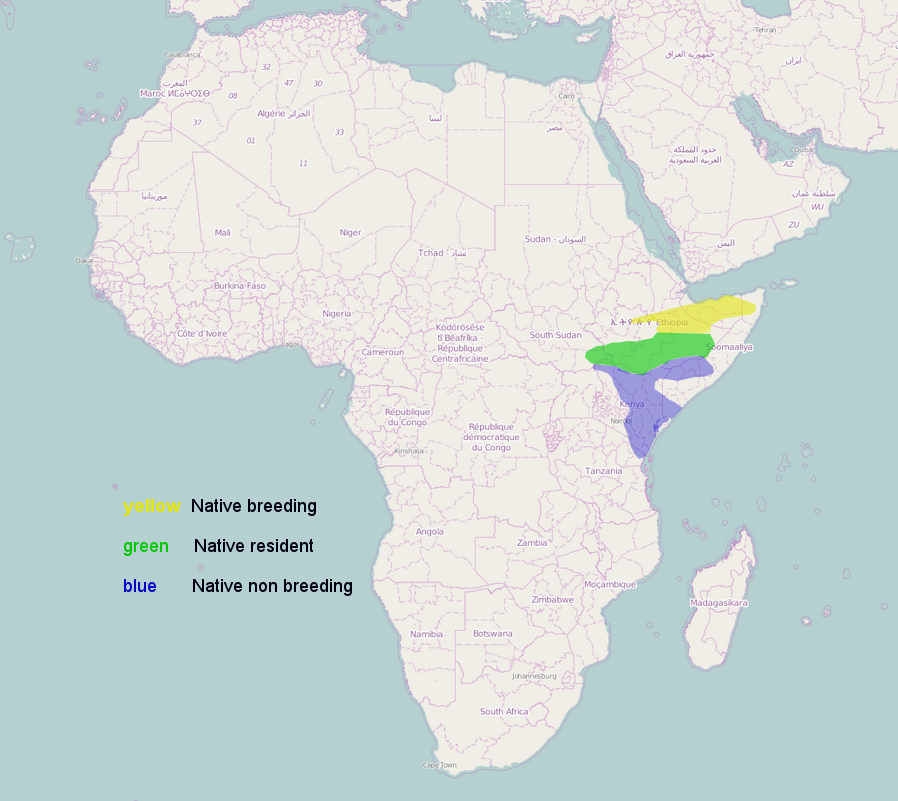 Distribution area of Shelley's starling (Lamprotornis shelleyi)